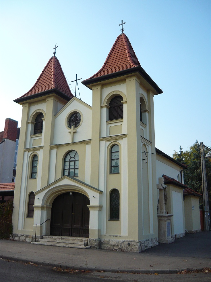 Roman Catholic church of Péterhegy, Budapest, District XI